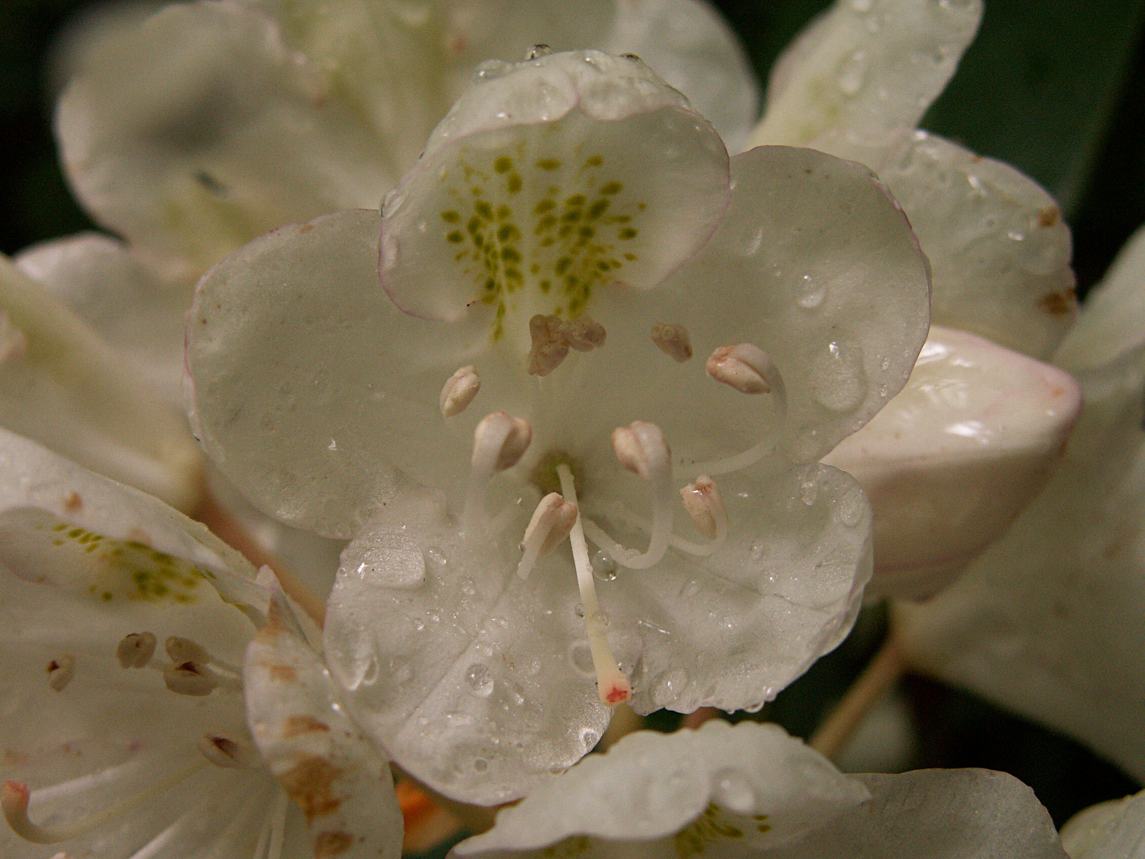 Great Rhododendron (Rhododendron maximum) blooming along the Trillium Trail in Fox Chapel, Pennsylvania